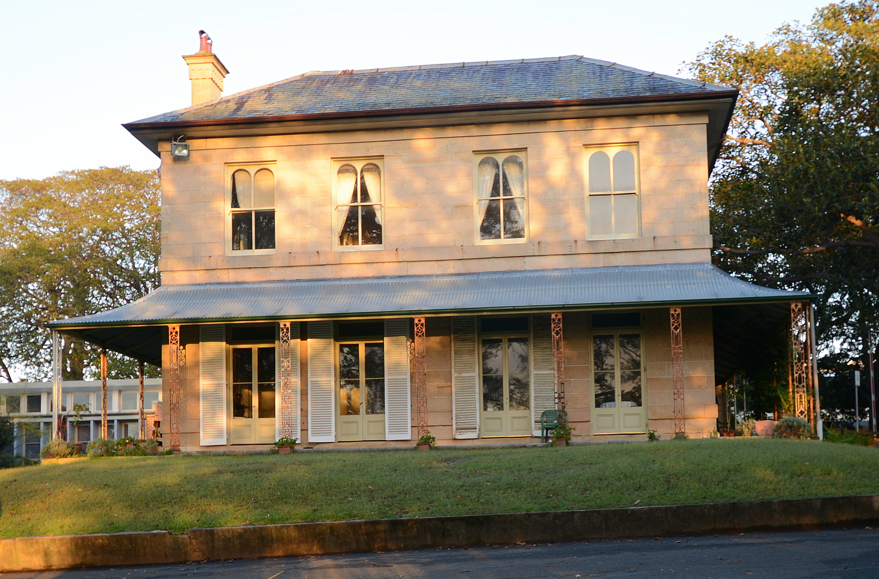 Ventnor, Avoca Street, Randwick, Sydney, at dawn